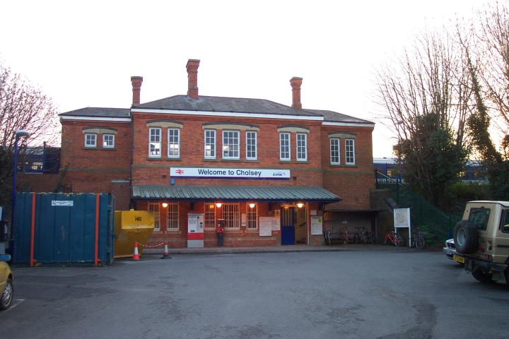 Cholsey railway station buildings; note train at track level. For more information see the Wikipedia article Cholsey railway station.